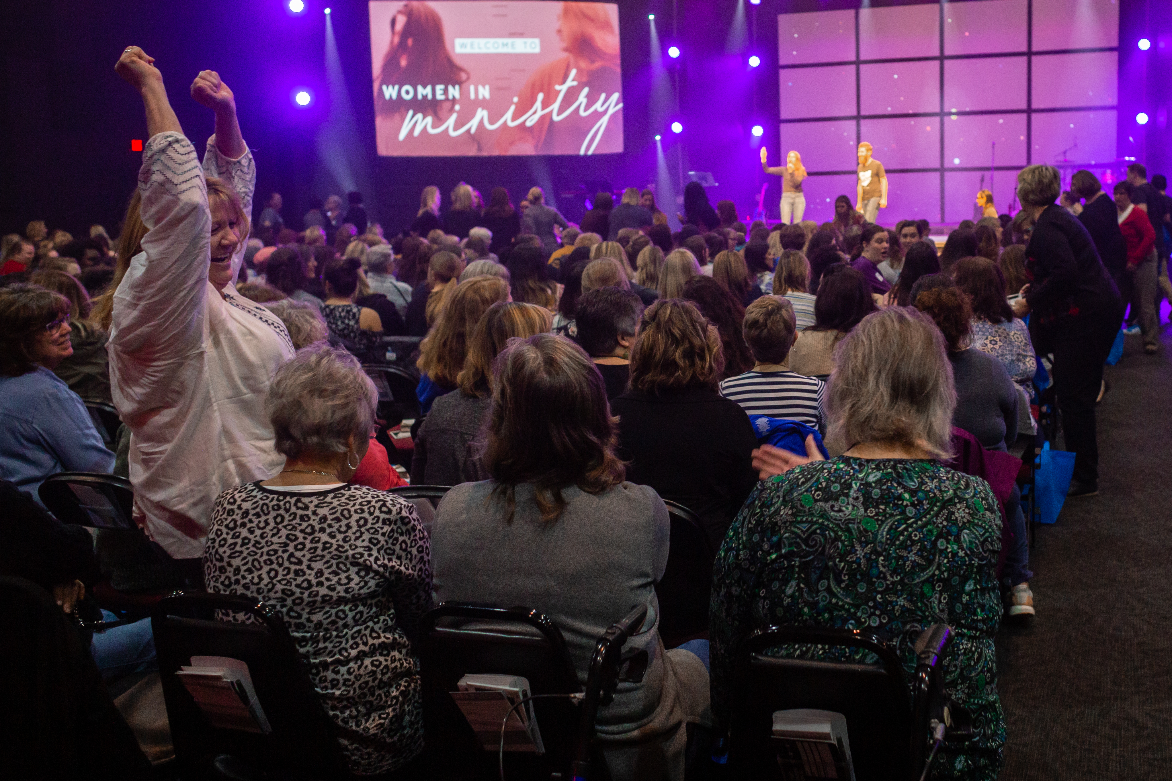 A yearly event where we honor women in minstry.